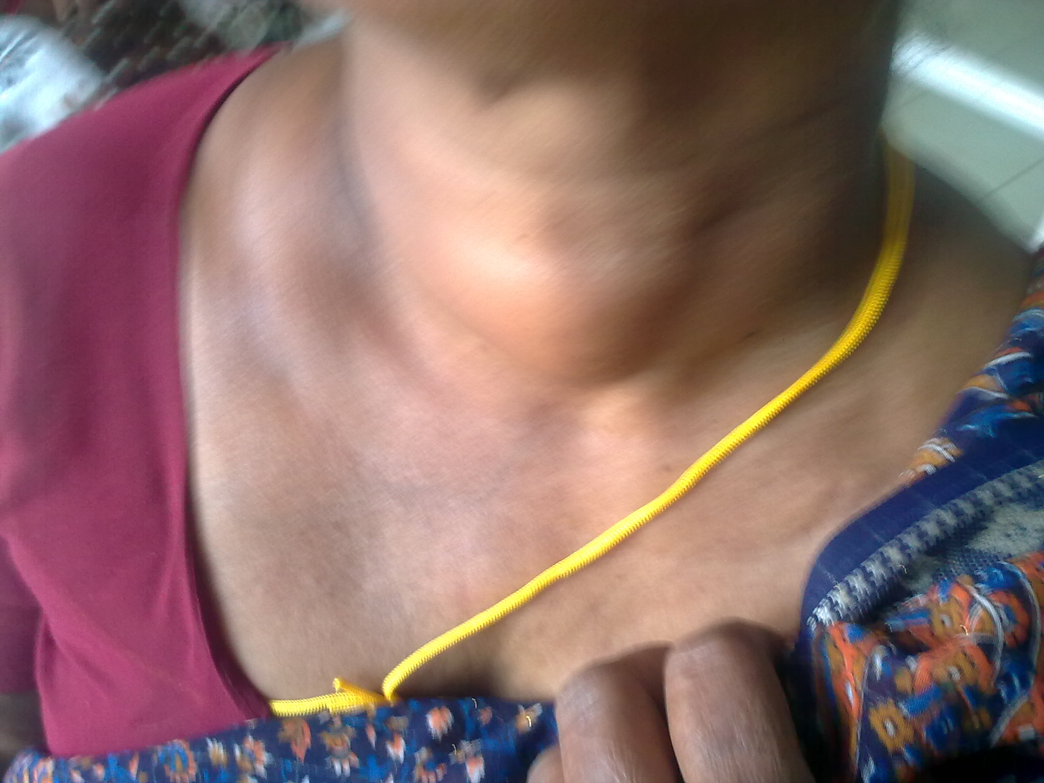 this is an image photographed by myself with a cellphone camera in my hospital.